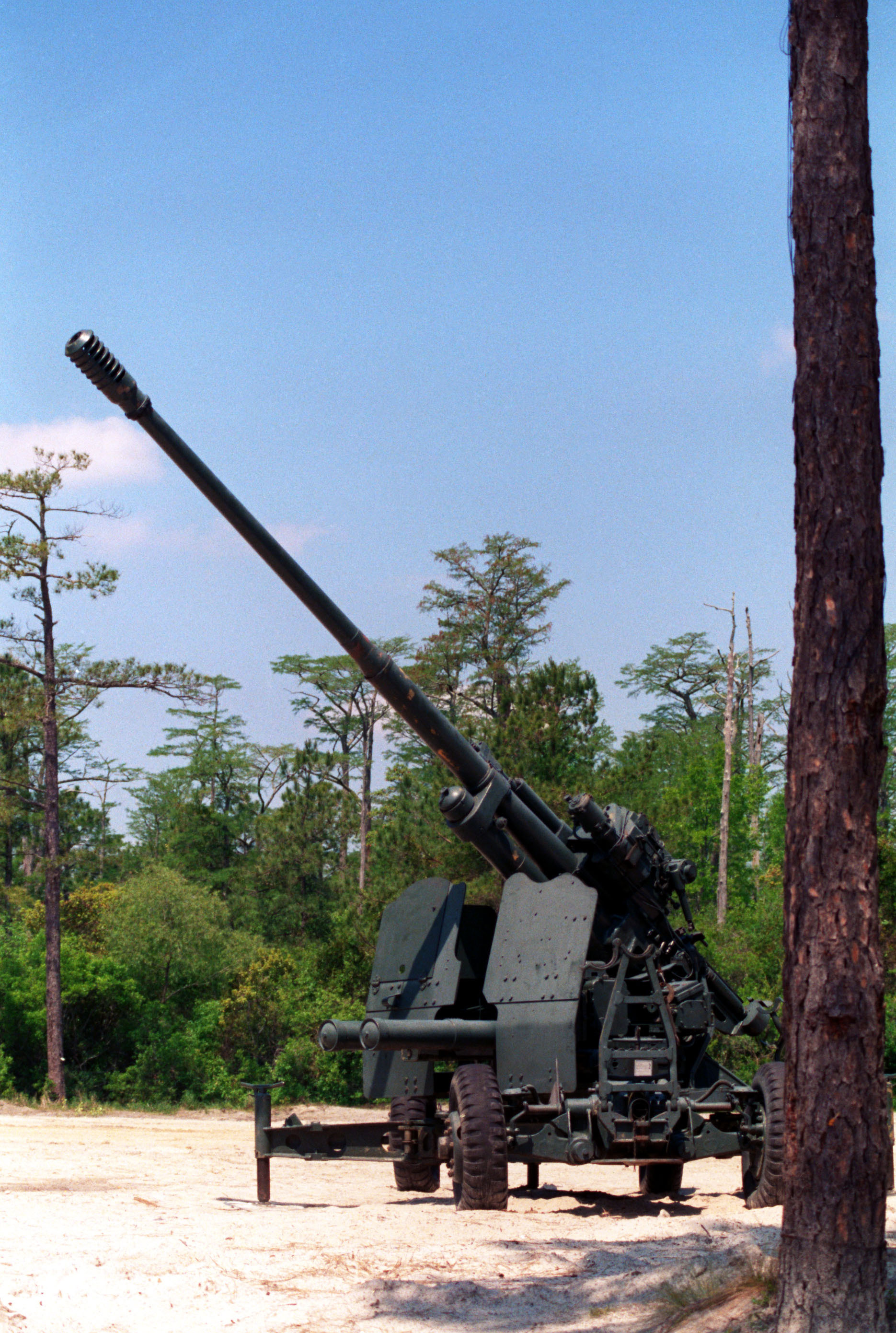 A view of a Soviet-made KS-19 100mm anti-aircraft gun deployed at the base's Combat Town during the joint services exercise Solid Shield '89. Location: MARINE CORPS BASE, CAMP LEJEUNE, NORTH CAROLINA (NC) UNITED STATES OF AMERICA (USA)